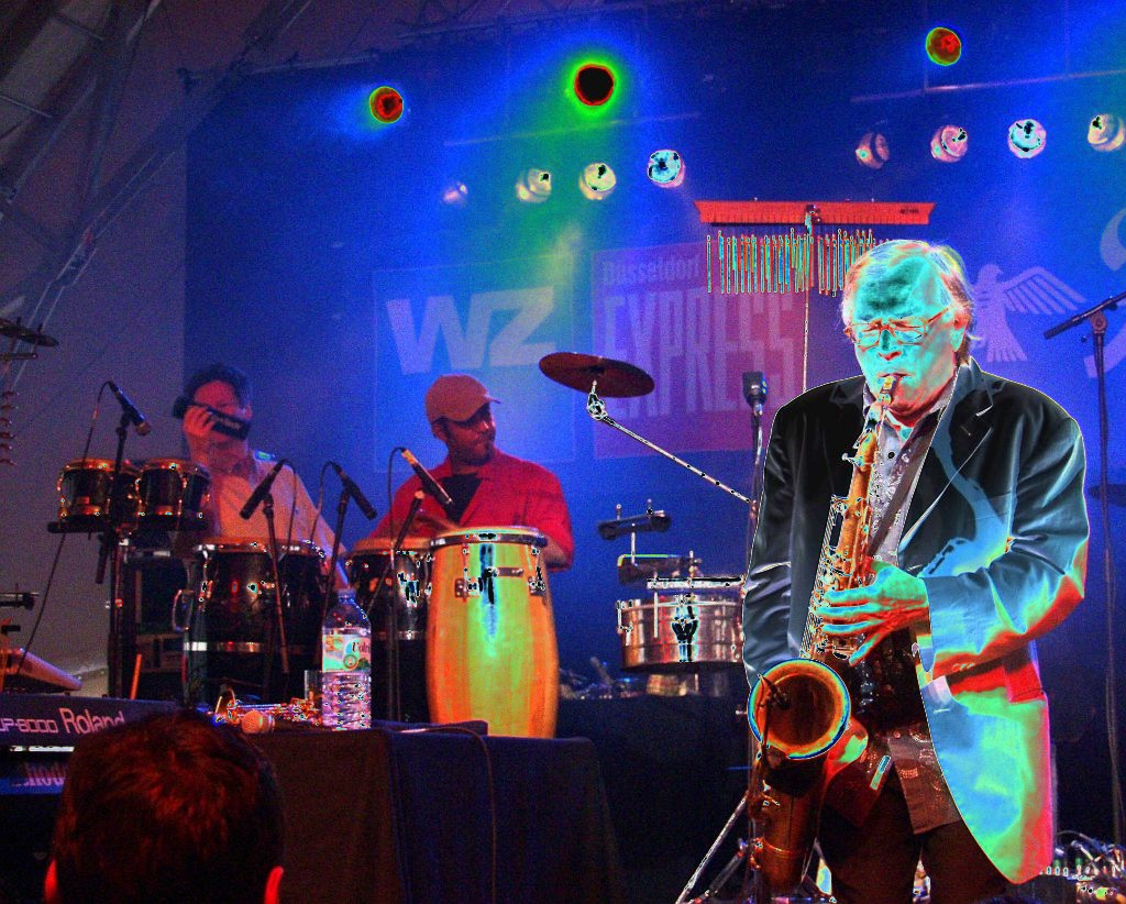 Example for Solarisation